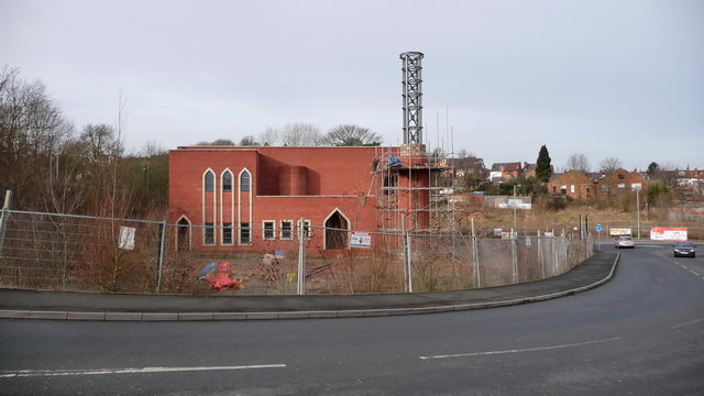 Redditch mosque Building work proceeds slowly on the new mosque for Redditch.